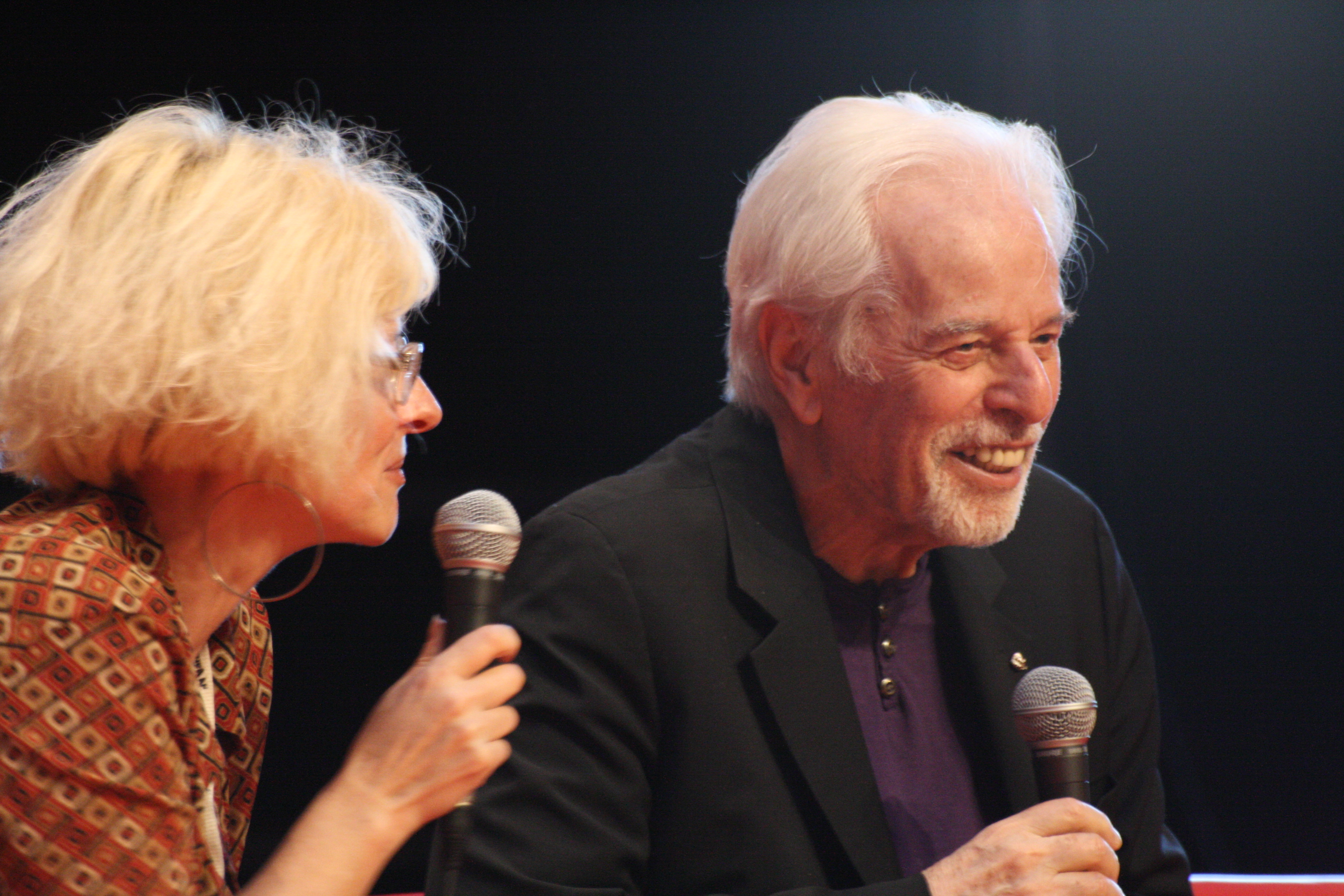 The conference of Alejandro Jodorowsky, at the Utopiales international science fiction festival held in 2011 in Nantes, France.